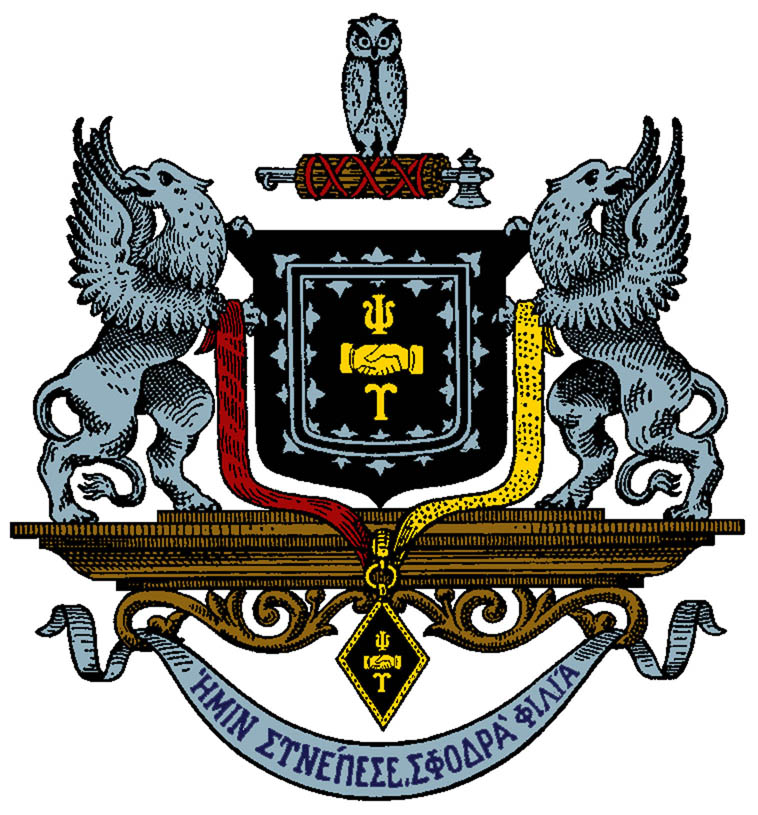 The Arms of the Fraternity are described in heraldic terms as a black shield bearing hands and letters of gold as in our badge, around which emblems run what is known as a double tressure, flory counter flory, of silver. The 'double tressure' alludes to the 'tie that binds,' the secrets, ideals, and aims of the Fraternity. The black 'shield' was chosen not only because it is more effective than any other hue in line engraving (which was the chief use of the coat-of-arms), but also because it is the background of the badge. The 'crest' consists of an owl surmounting Roman fasces. The owl was assigned by the Greeks to Pallas Athena as an emblem of her supernatural wisdom, and by the Romans to Minerva, Goddess of Wisdom. The 'fasces,' which the owl surmounts, was a term given to a bundle of elm sticks or branches bound together with leather thongs or lashes, and containing an axe with its blade projecting from the side. These were carried by 'lectors' (public officials attending Roman magistrates), and were symbols of power. The colors of the Fraternity are represented by a garnet ribbon on the dexter side of the shield, and by a gold one at the left, from which, united below the shield, depends by a ring the Psi Upsilon badge. The supporters are two silver griffins, typifying watchfulness and strength. The motto, selected from Plato, translates to: "Unto us has befallen a mighty friendship." For a Greek-letter fraternity, a Greek motto is necessary.